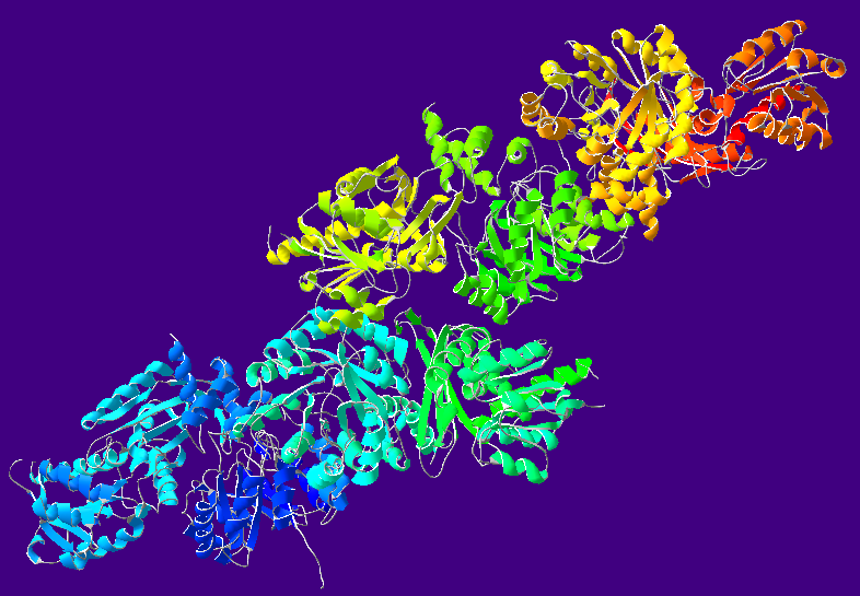 Gen w/ Deepview from PDB:1NVM